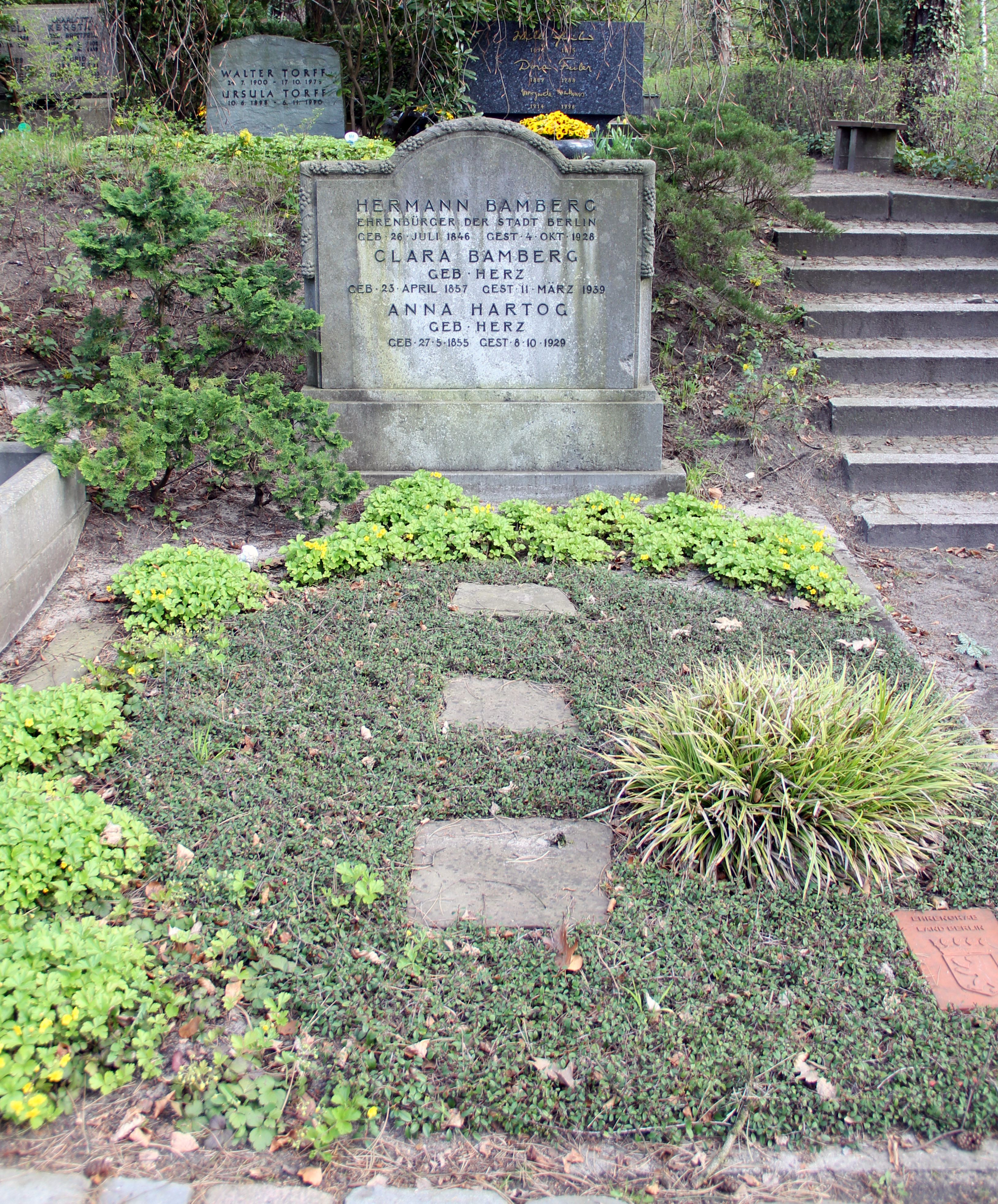 Grave of honor, Hermann Bamberg, Trakehner Allee 1, Berlin-Westend, Germany